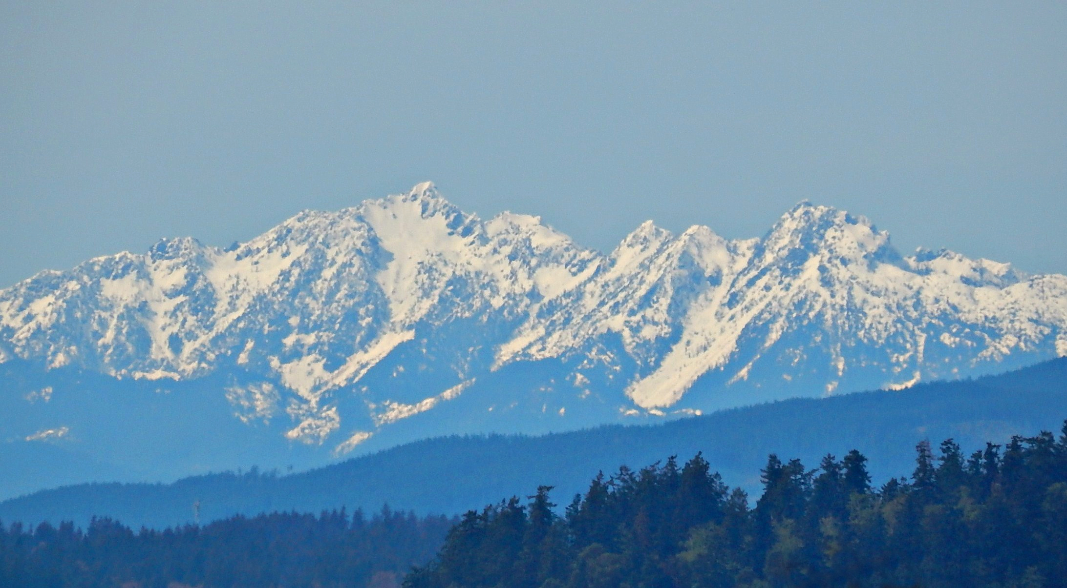 Mount Pershing seen from Lincoln Park in West Seattle, Washington. Olympic Mountains.